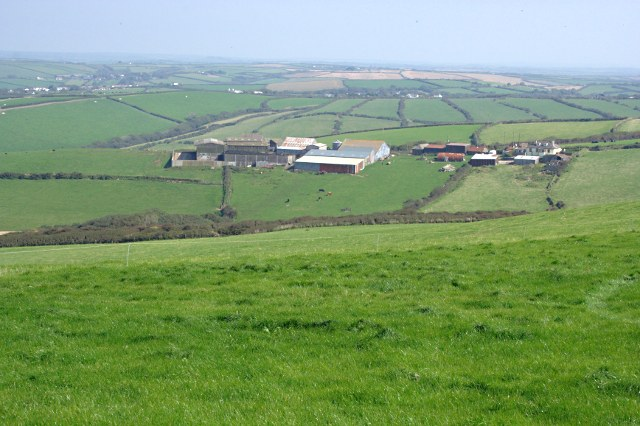 Pengold Farm Looking inland from the summit of High Cliff.